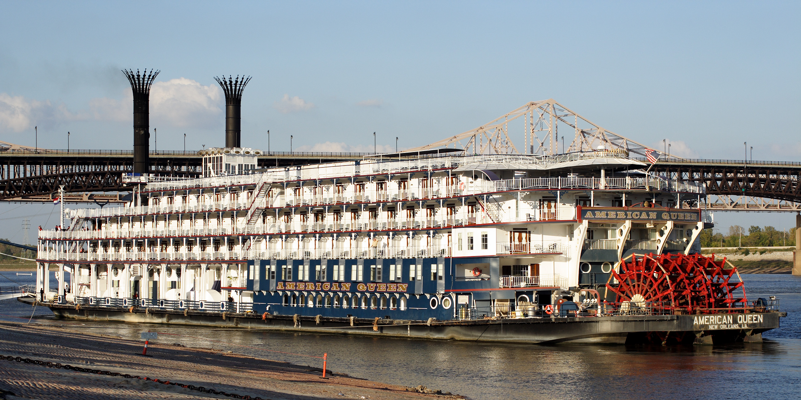 The American Queen, a recreation of a classic Mississippi riverboat, in front of the Eads Bridge in St. Louis, MO, US.